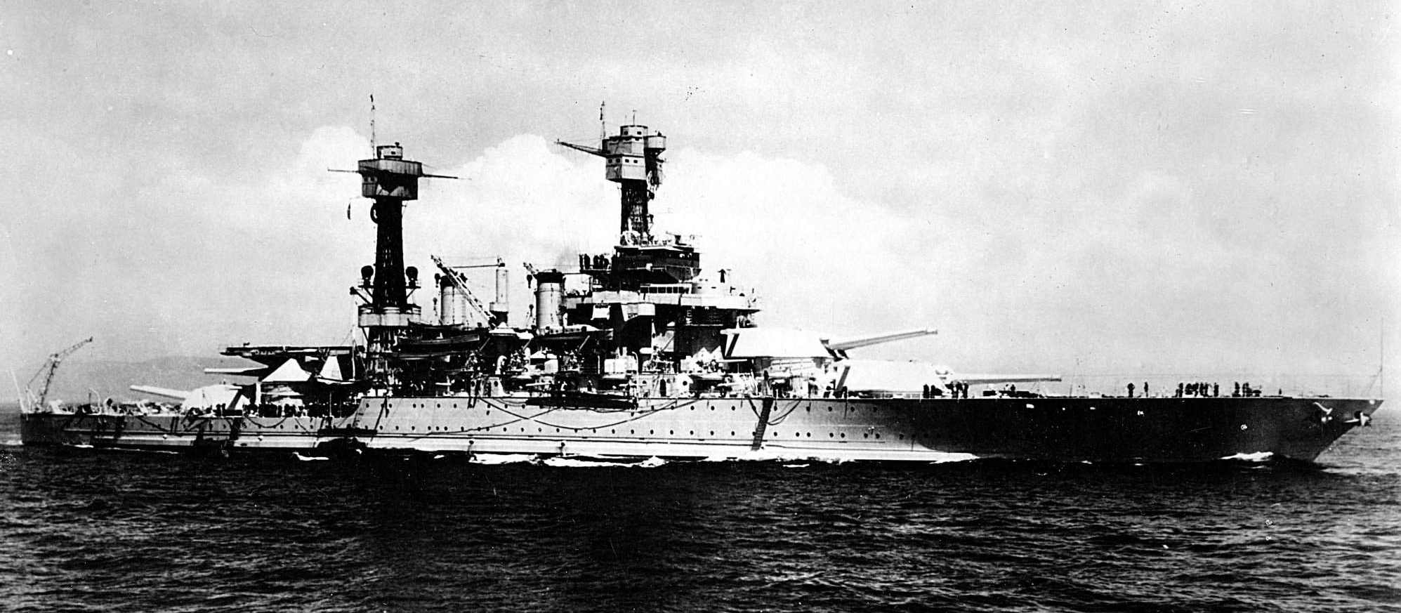 "Oct. 1935, starboard view, with the Hawaiian mountains in the background."